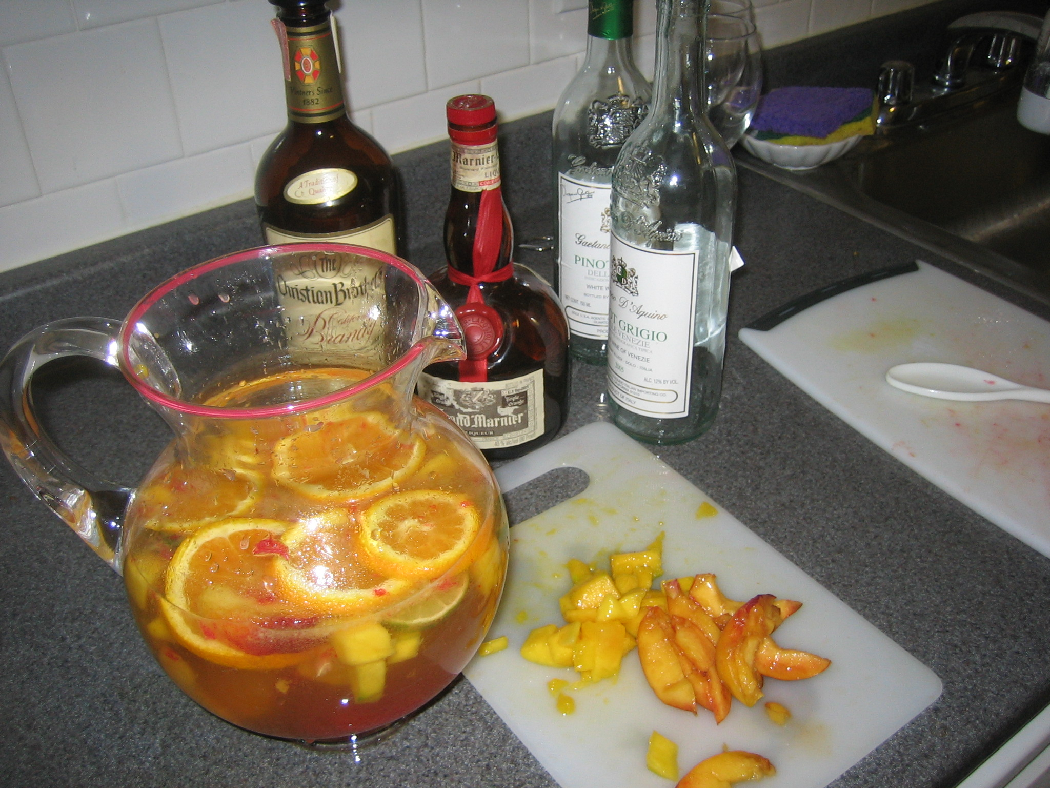 Ingredients: sugar, 1.7 bottles of not-great pinot grigio, 5 ounces of brandy, 4 ounces of gran marnier, 1 orange, 1 lime, 2 plums, 1 mango, 2 peaches